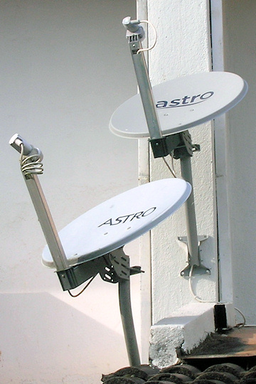 Two installed Astro satellite dishes, old (bottom) and new (top). The older satellite dish bears the Astro logo before 2003, while the newer one bears the said logo after 2003.